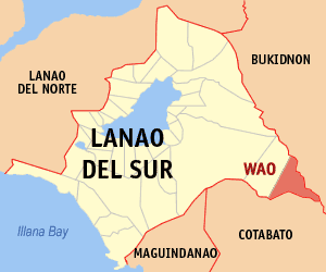 Map of the Lanao del Sur showing the location of Wao